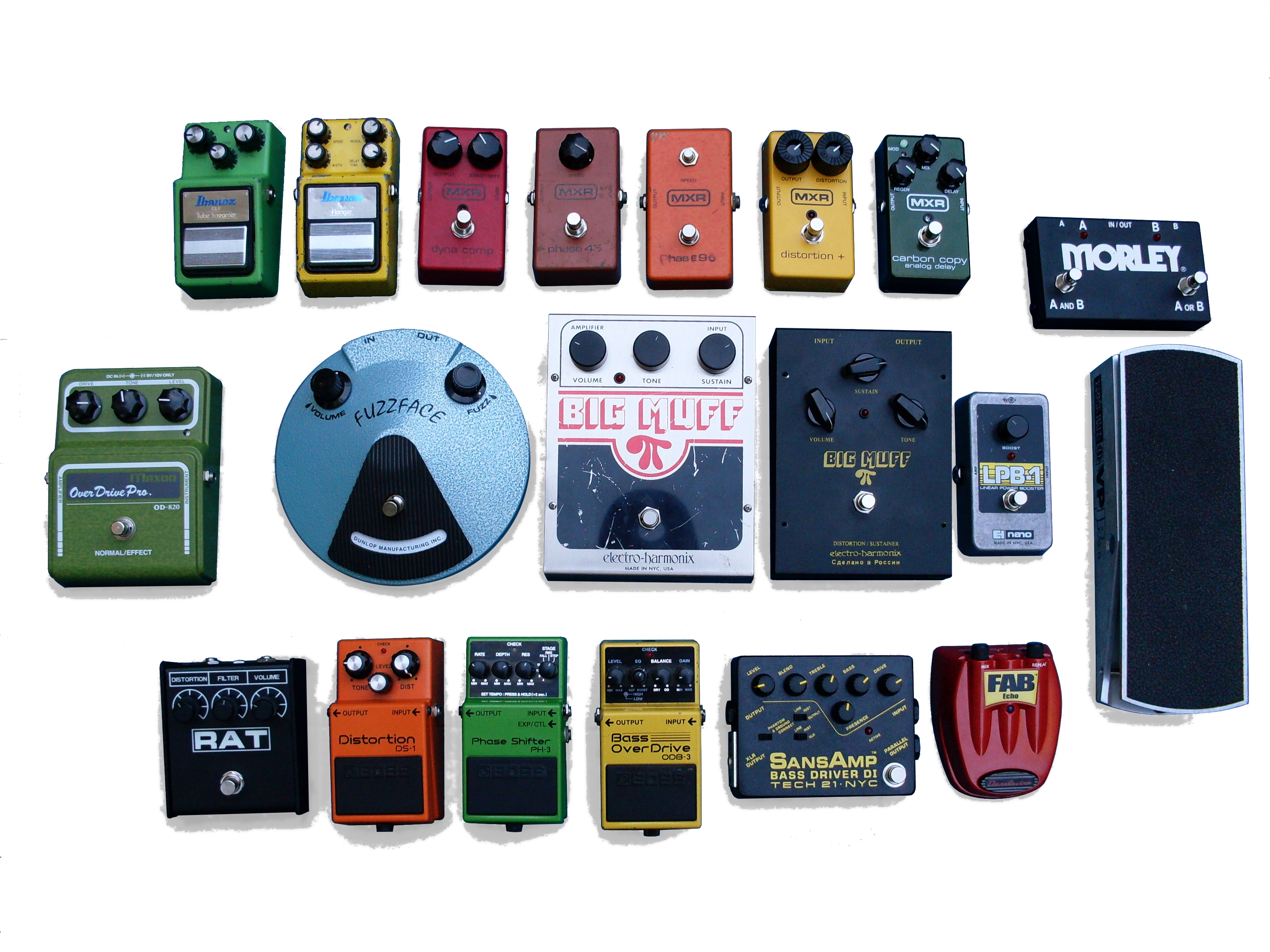 Matt's pedal collection